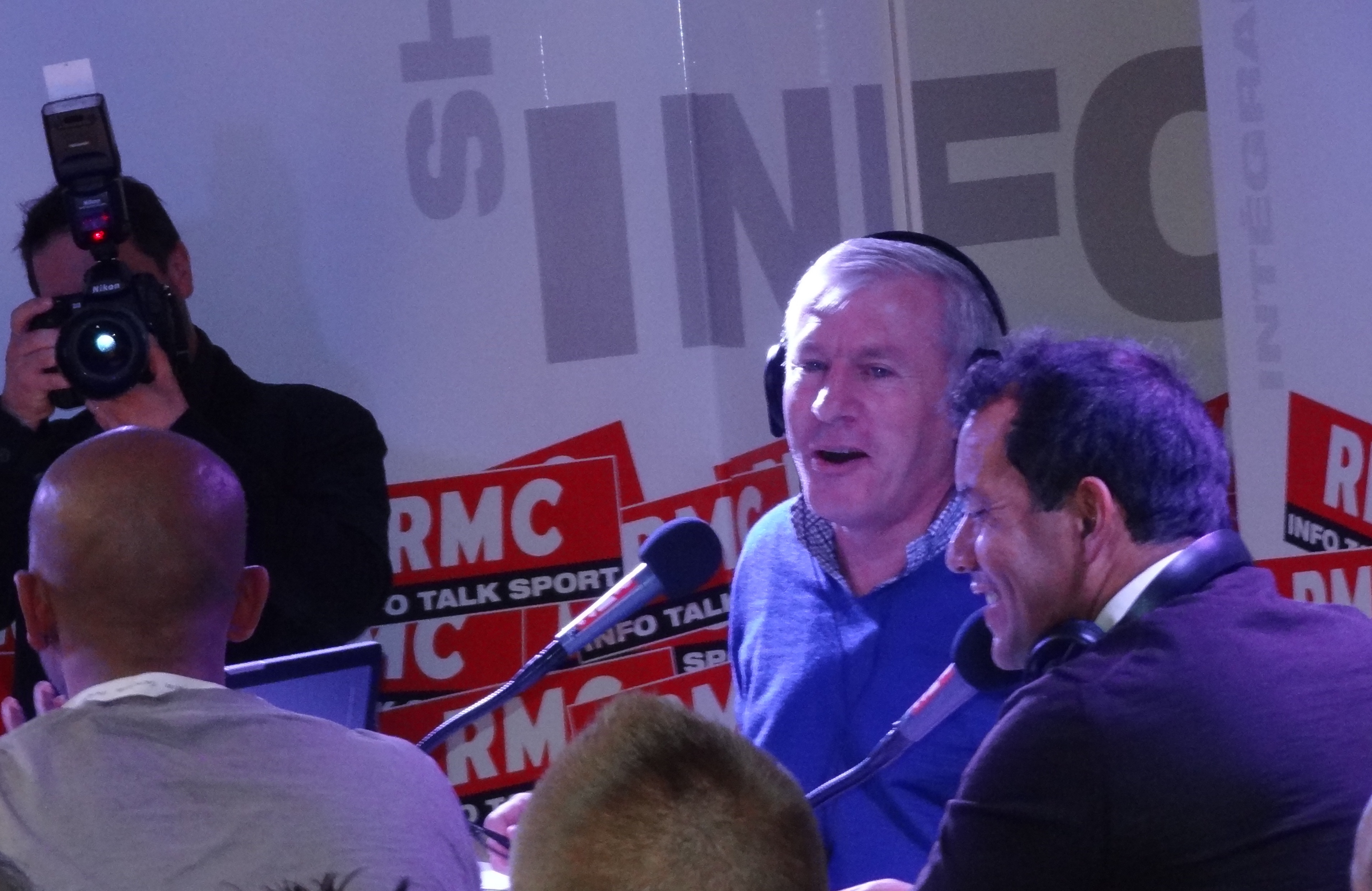 Luis Fernandez on RMC